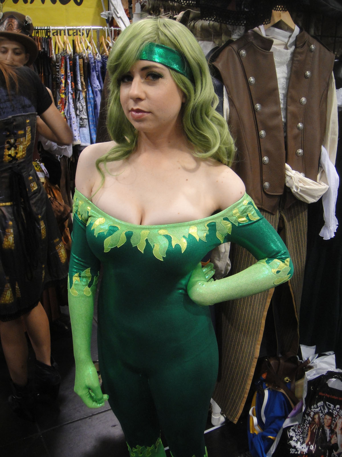 photo 2012 Pop Culture Geek taken by Doug Kline If you're interested in higher resolution versions of my images, contact me via my profile page.